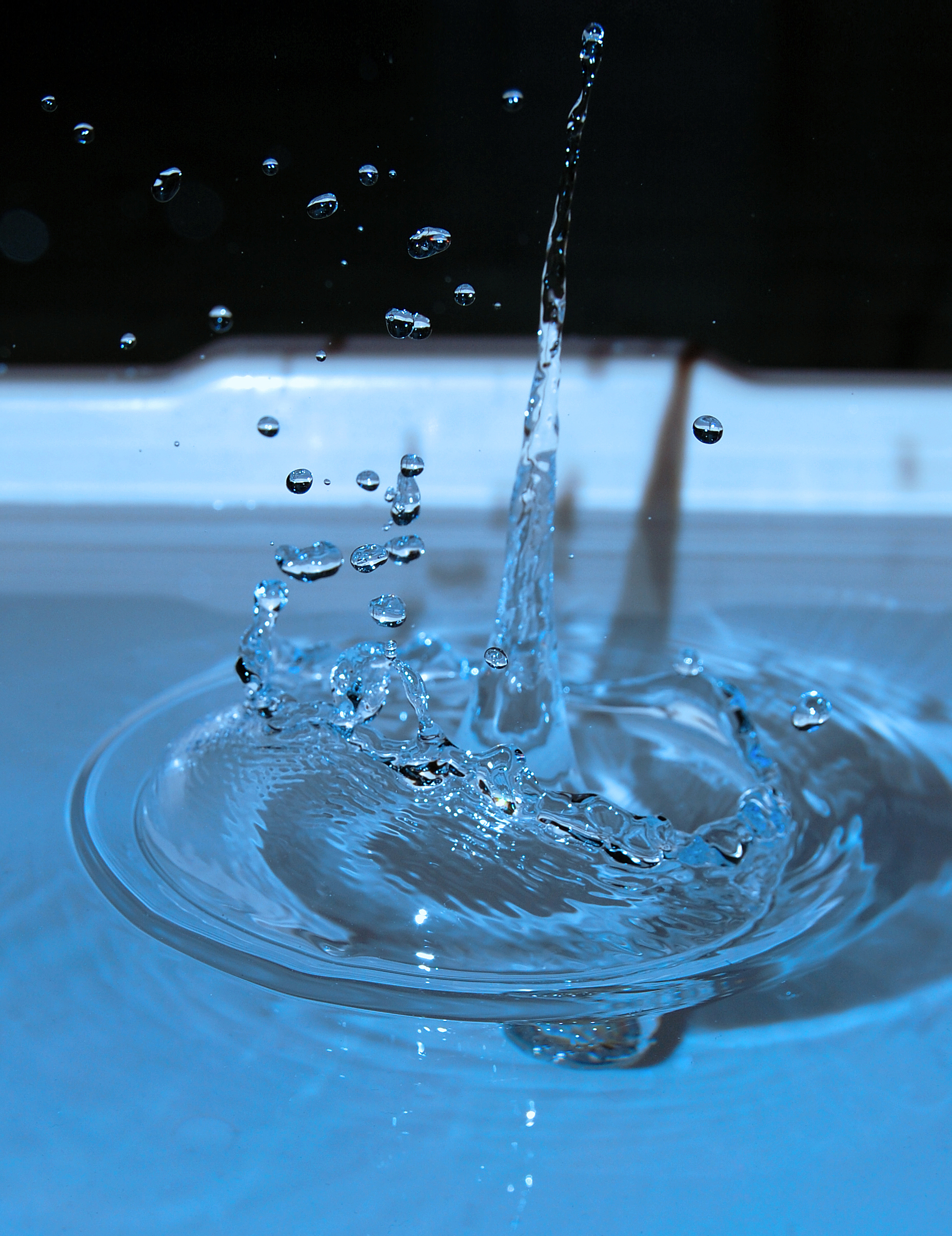 Splash (fluid mechanics), blue colored